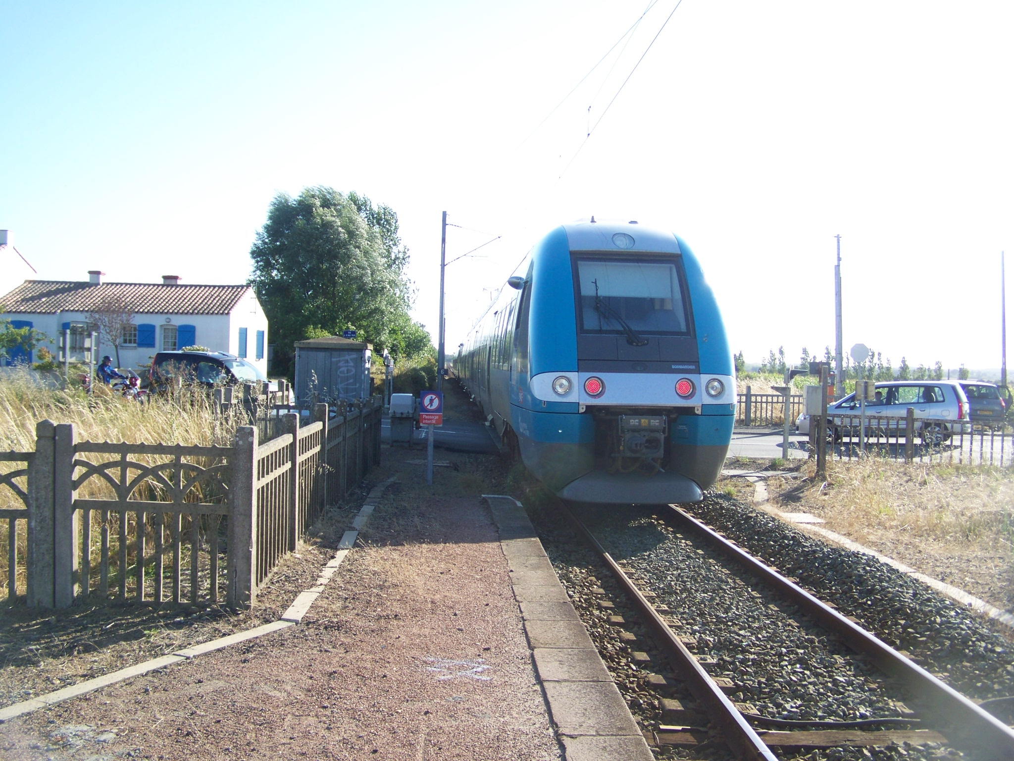 French regional train coming from Nantes (Loire-Atlantique) and bound for les Sables d'Olonne is leaving little station of Olonne sur Mer (Vendée), its last stop before destination.